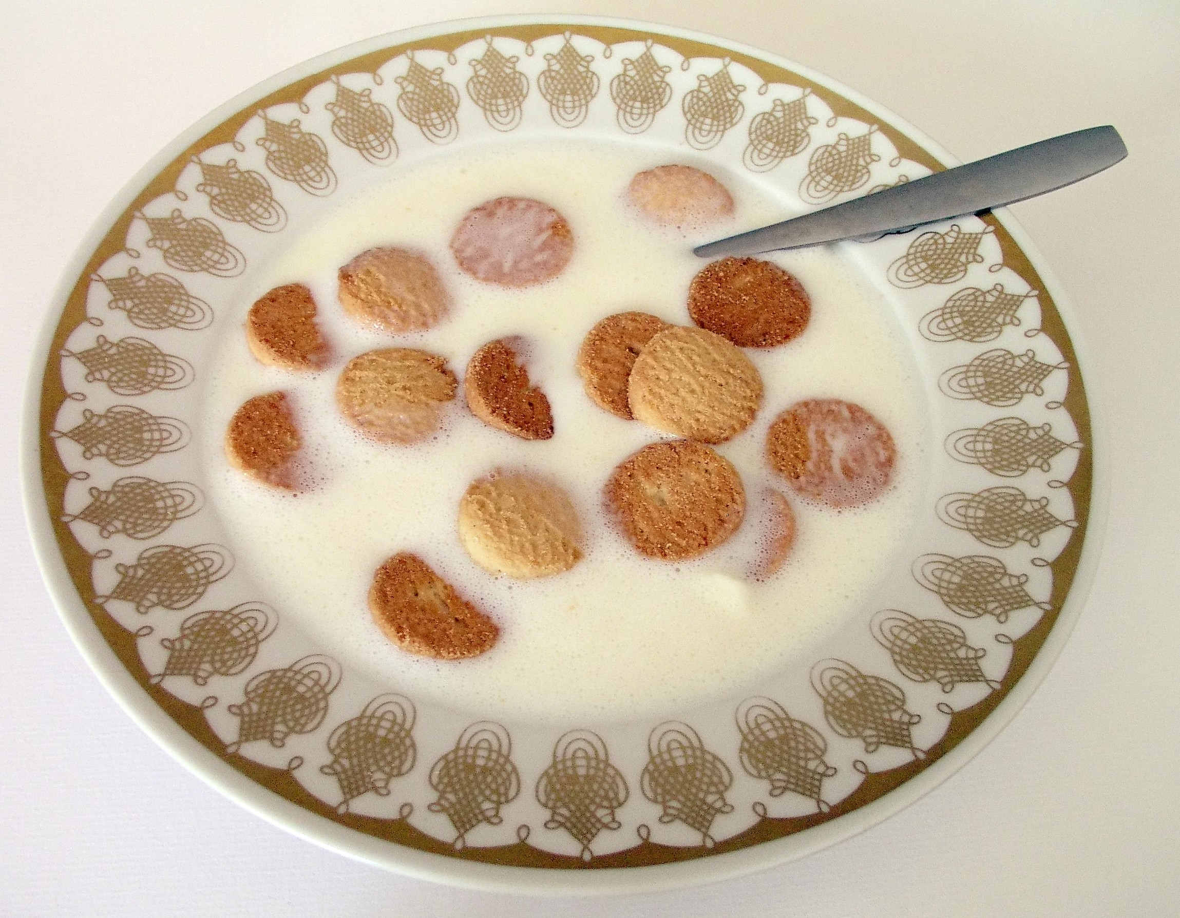 Koldskål, Danish cold dessert primarily of buttermilk. With kammerjunkere, Danish biscuits with vanilla taste